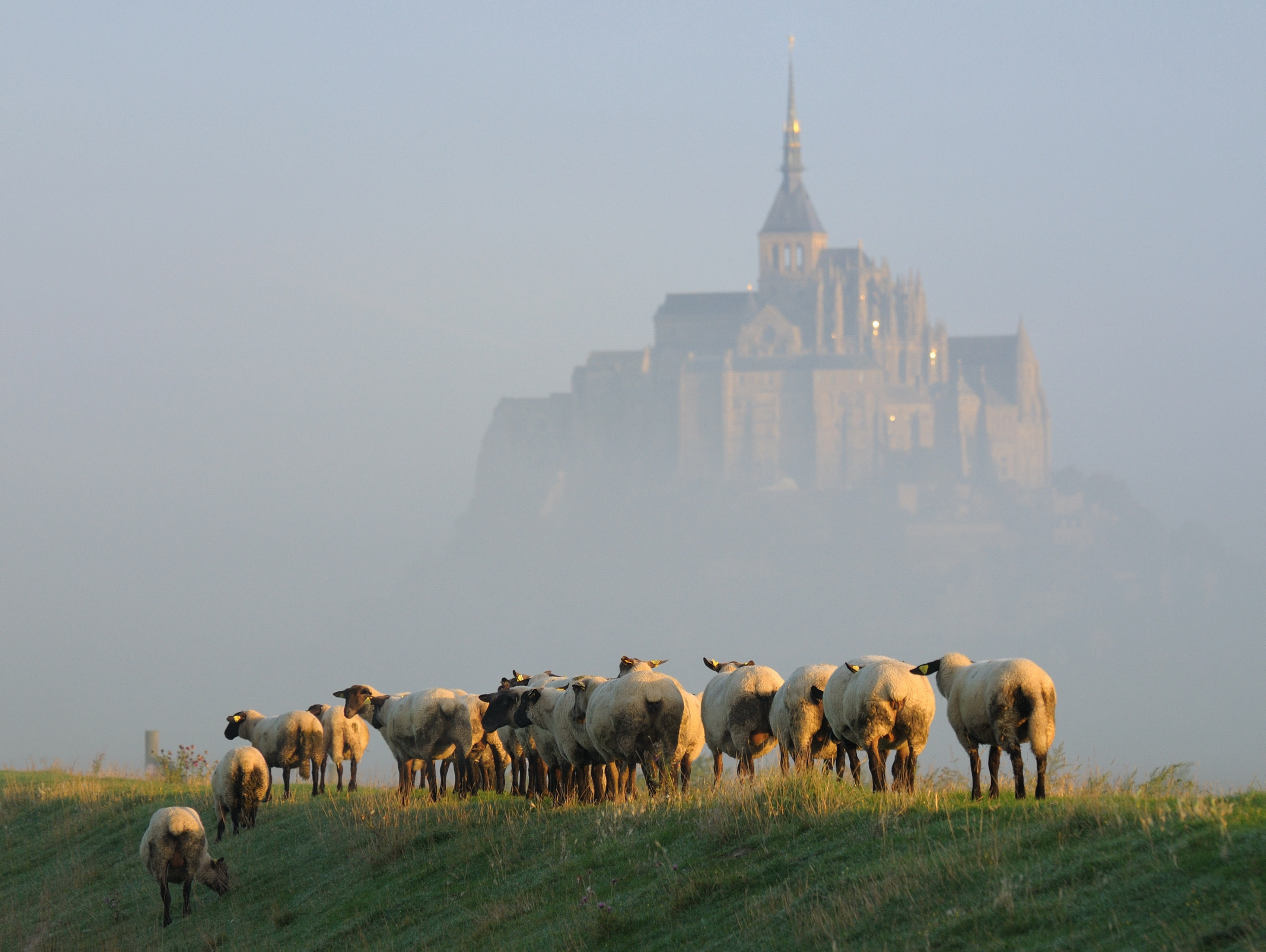 Mont Saint-Michel in September morning